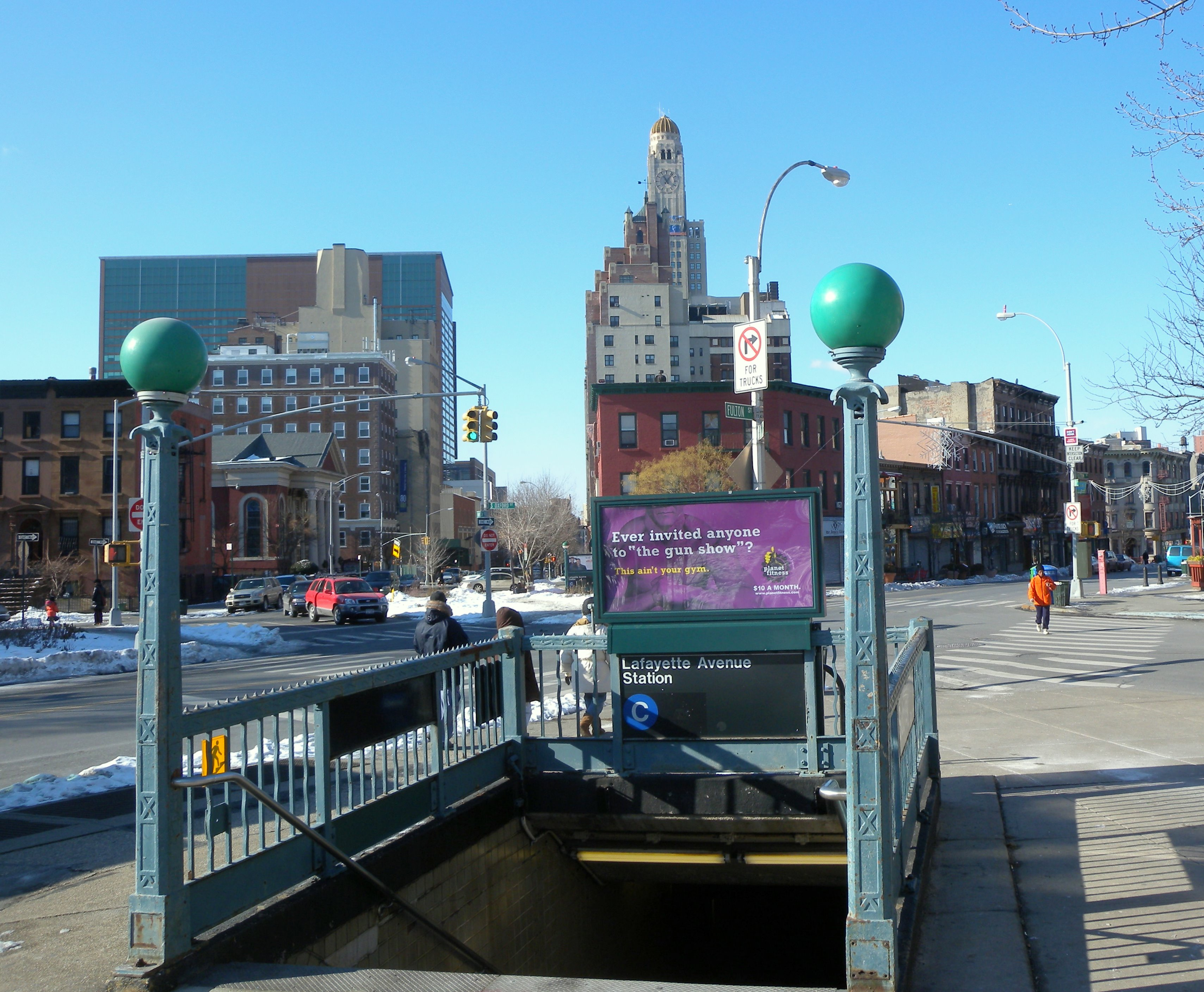 Looking west at stair for IND, and across Fulton Street, on a sunny winter midday.